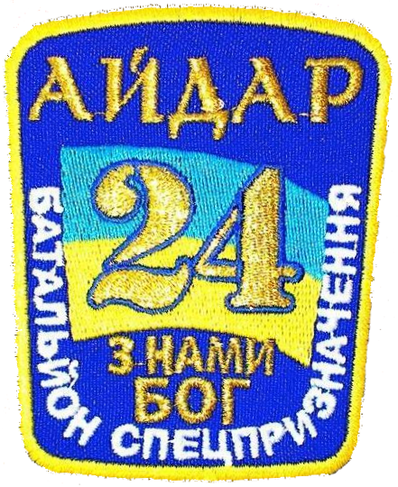 Sleeve patch for the 24th Battalion of Territorial Defence "Aidar"